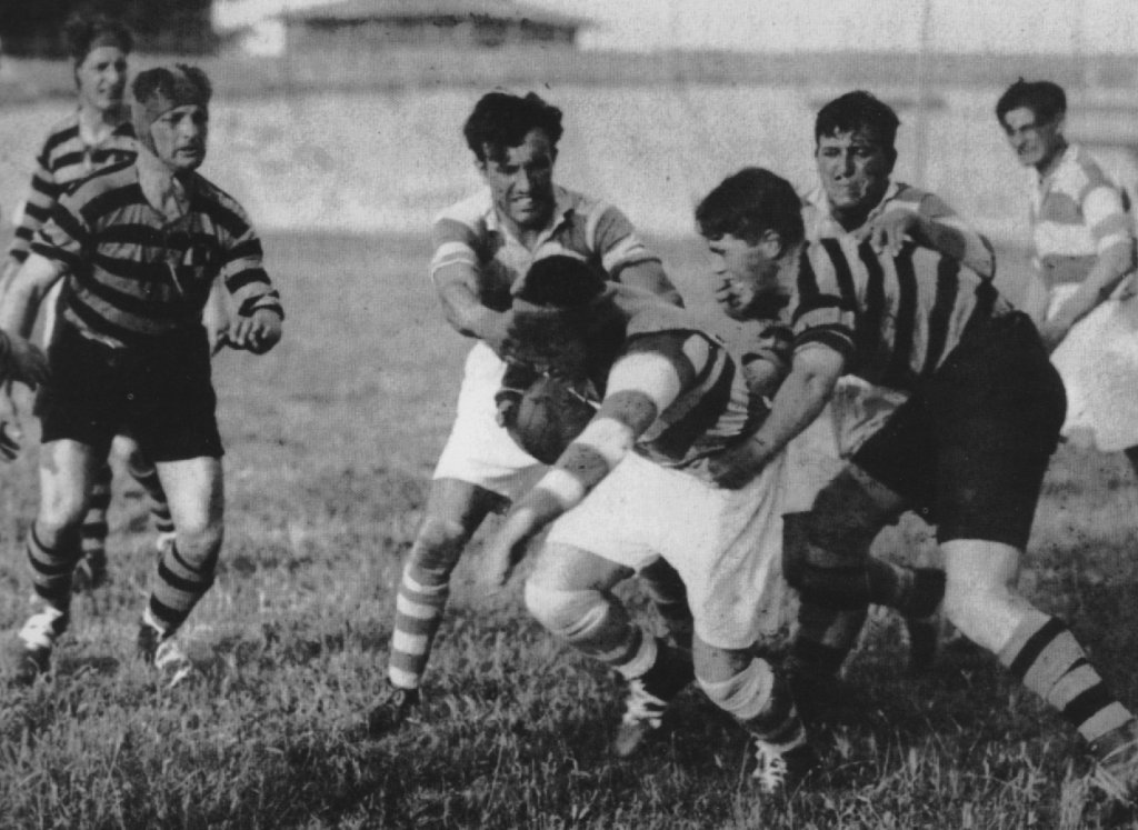 Knockout match for the 1st title of rugby union's Italian champion between Ambrosiana (Milan) and S.S. Lazio (Rome). The 1st and 2nd legs ended up with a win each then a knockout on neutral field was necessary and the two teams met in Bologna. Ambrosiana eventually won the knockout 3-0 with a 36th-minute try of Clemente Caccianiga.